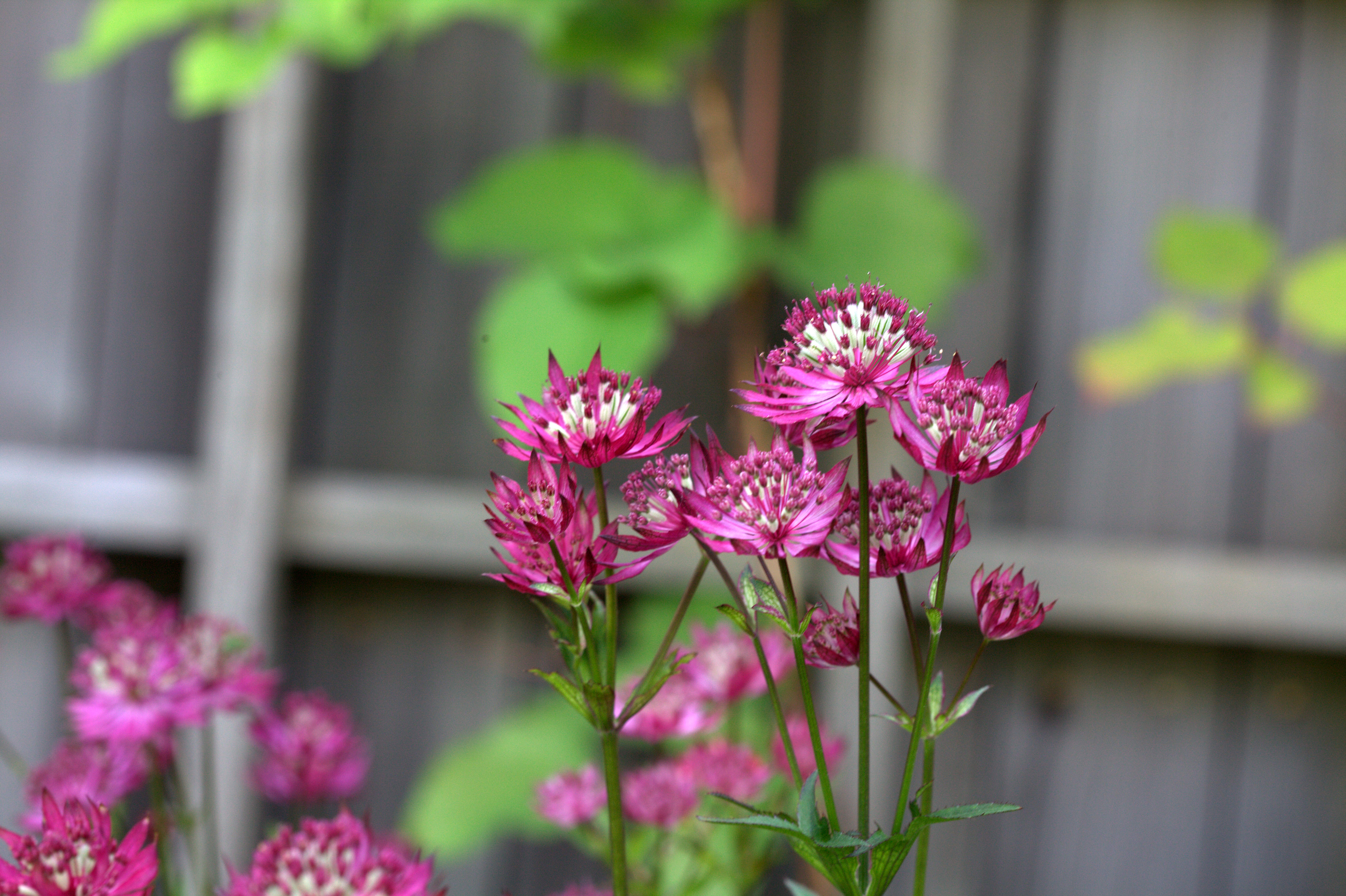 Photo taken at Gothenburg botanical garden. Specimen id: 2004-2810 p G Plant collected in 2004 from a garden (Säve).